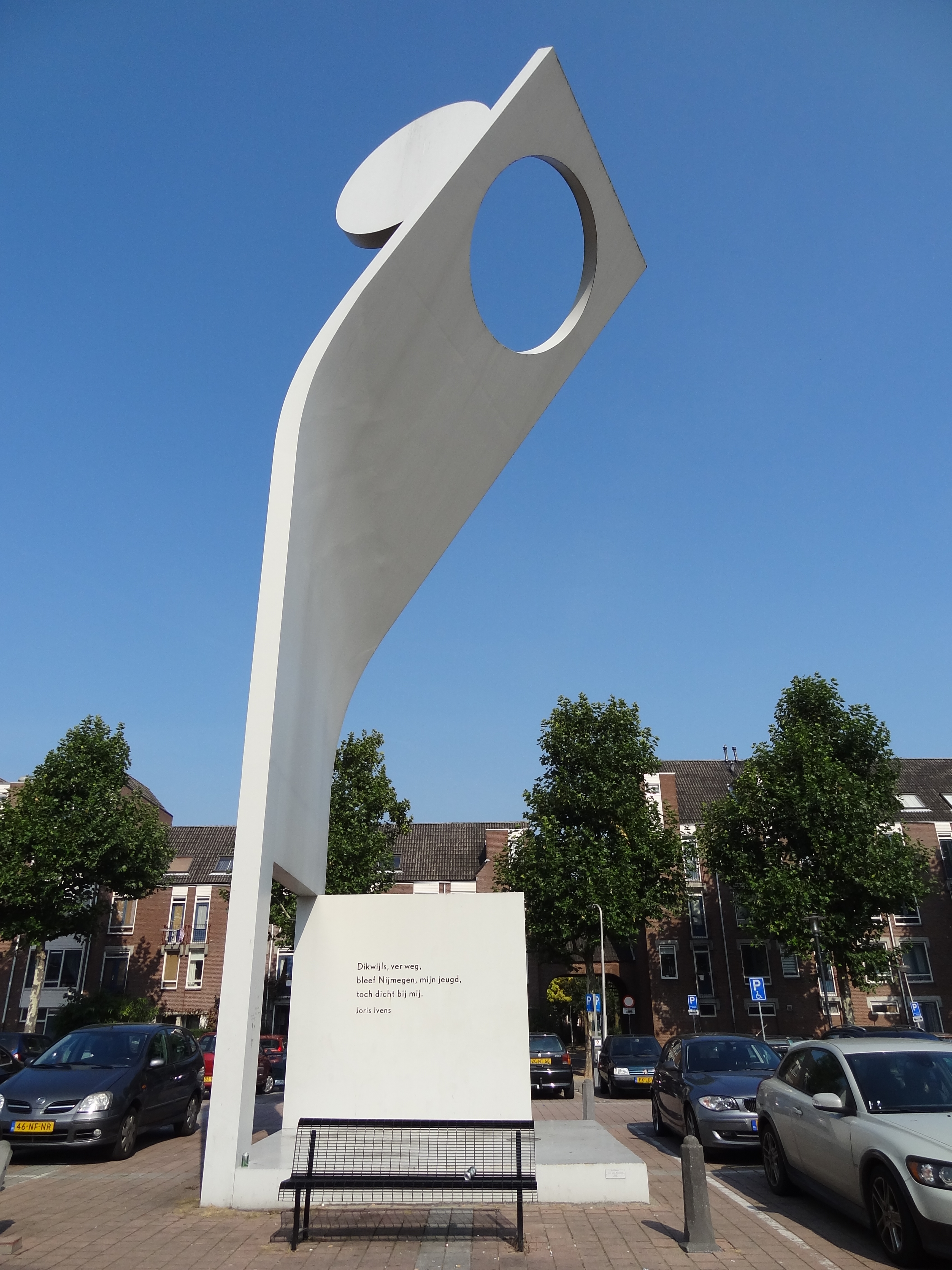 Joris Ivensmonument created by Bas Maters at the Joris Ivensplein in Nijmegen, The Netherlands